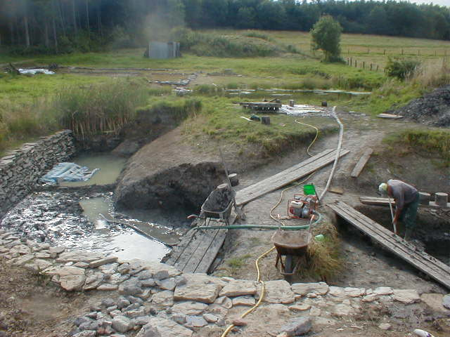 Ancient Roman villa in Habay (Belgium) : preliminary drying of the site. Walon: fougnaedje arkeyolodjike a Habâ : assouwaedje del plaece.